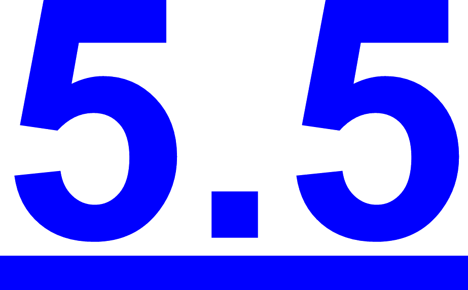 International 5.5 Metre Class logo